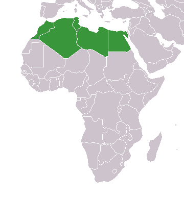 Union of North African Football (map)